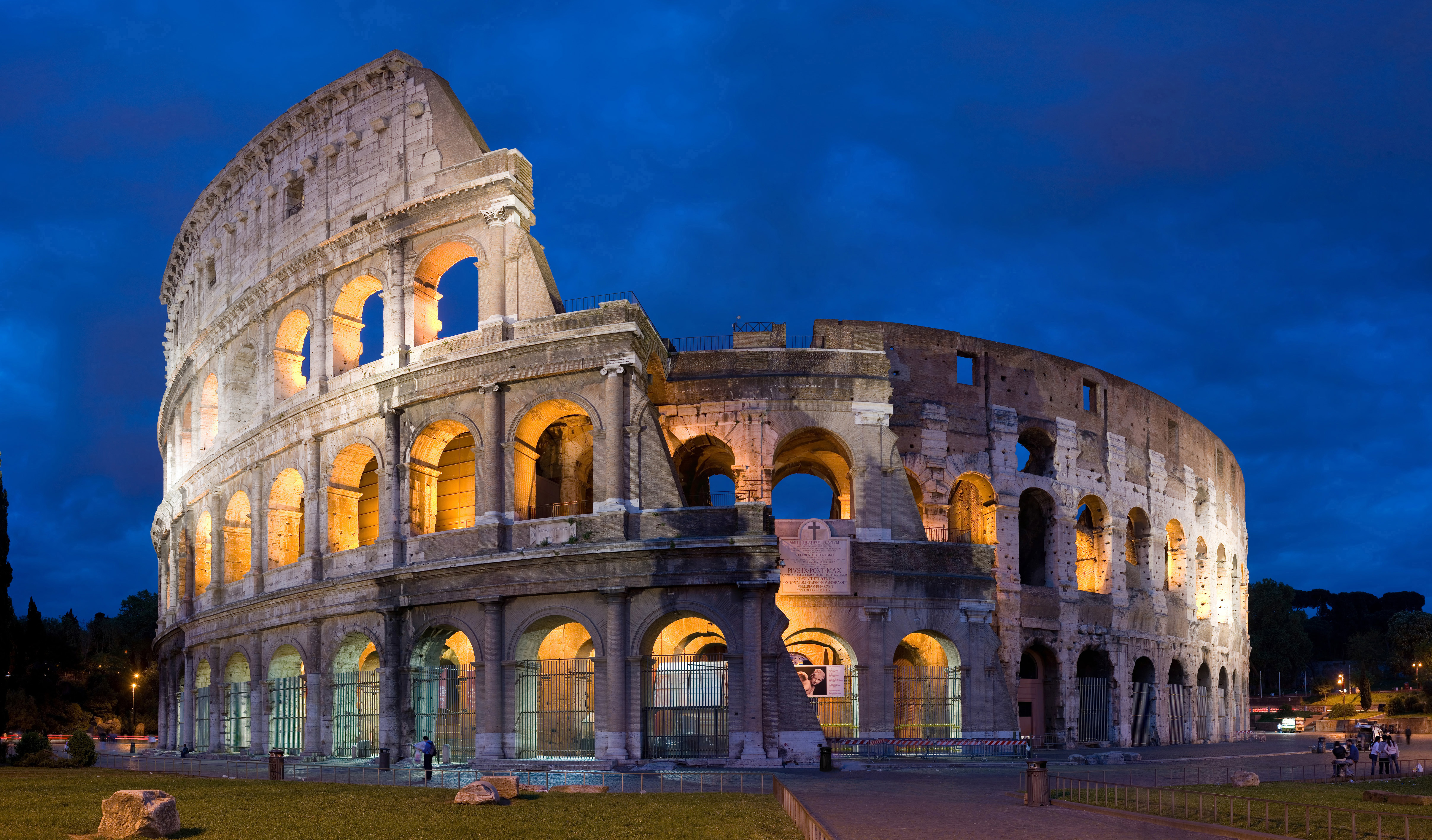 A 4×4 segment panorama of the Colosseum at dusk. Taken by myself with a Canon 5D and 50mm f/1.8 lens at f/5.6.